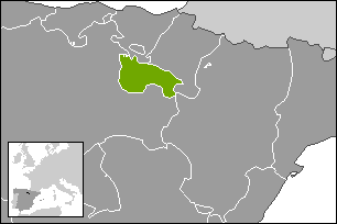 Reference area is NUTS ES2 (Northeastern Spain).